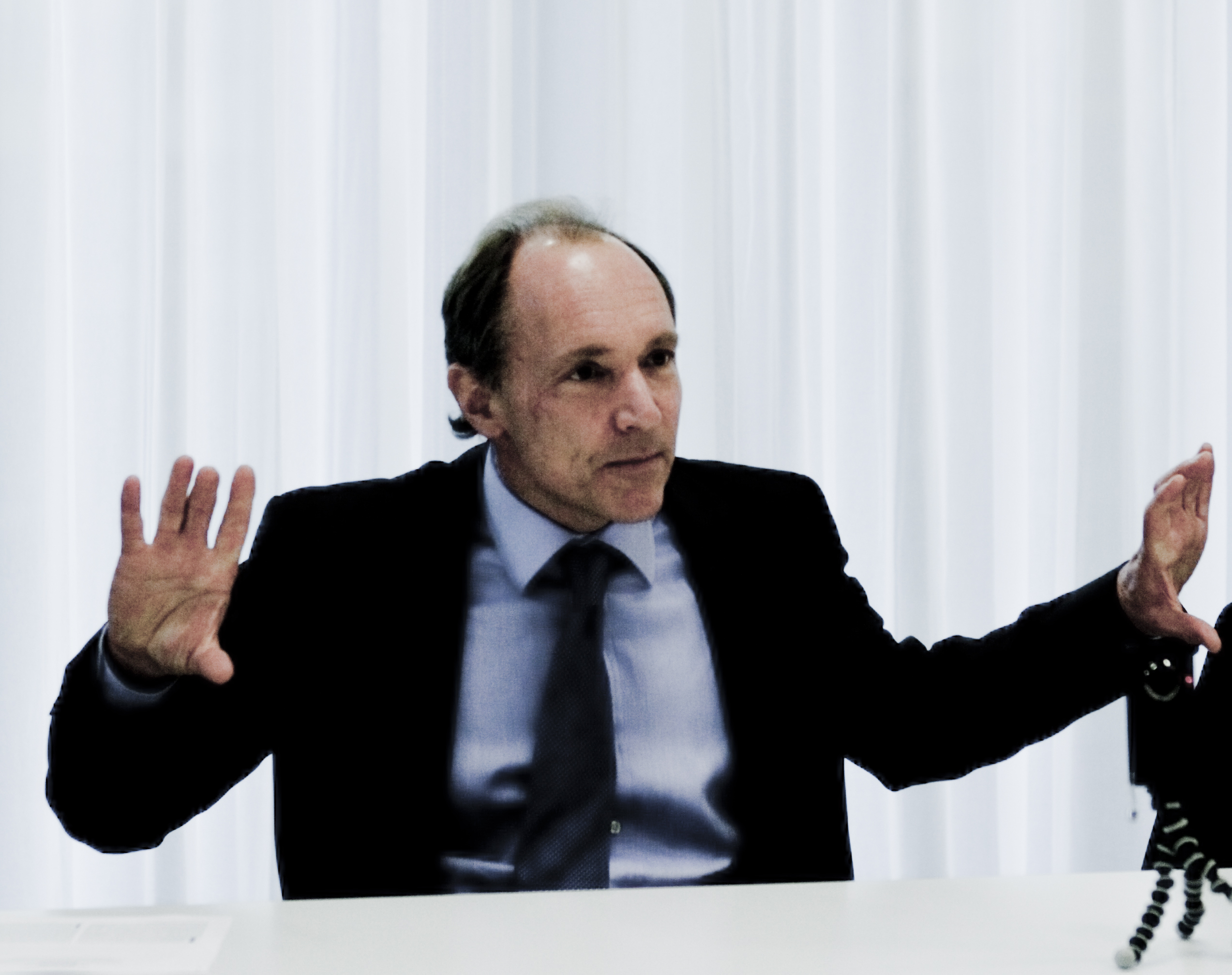 Tim Berners-Lee gesticulating at the launch of .uk.